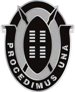 Special Operations Command Africa (Airborne) United States Army Element Distinctive Unit Insignia